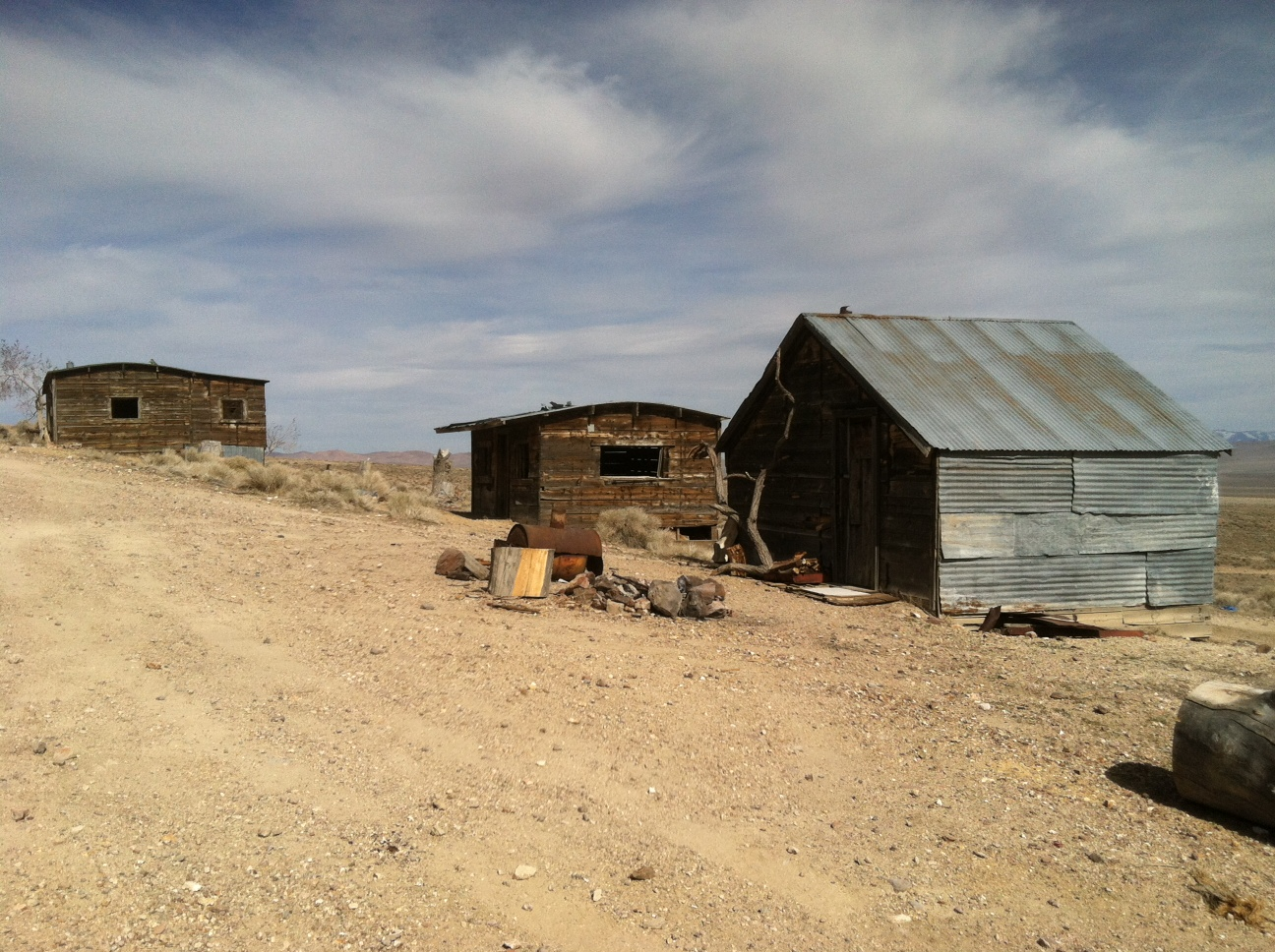 Tunnel Camp ghost town, Seven Troughs Range, Looking N/NE, Pershing Co., NV